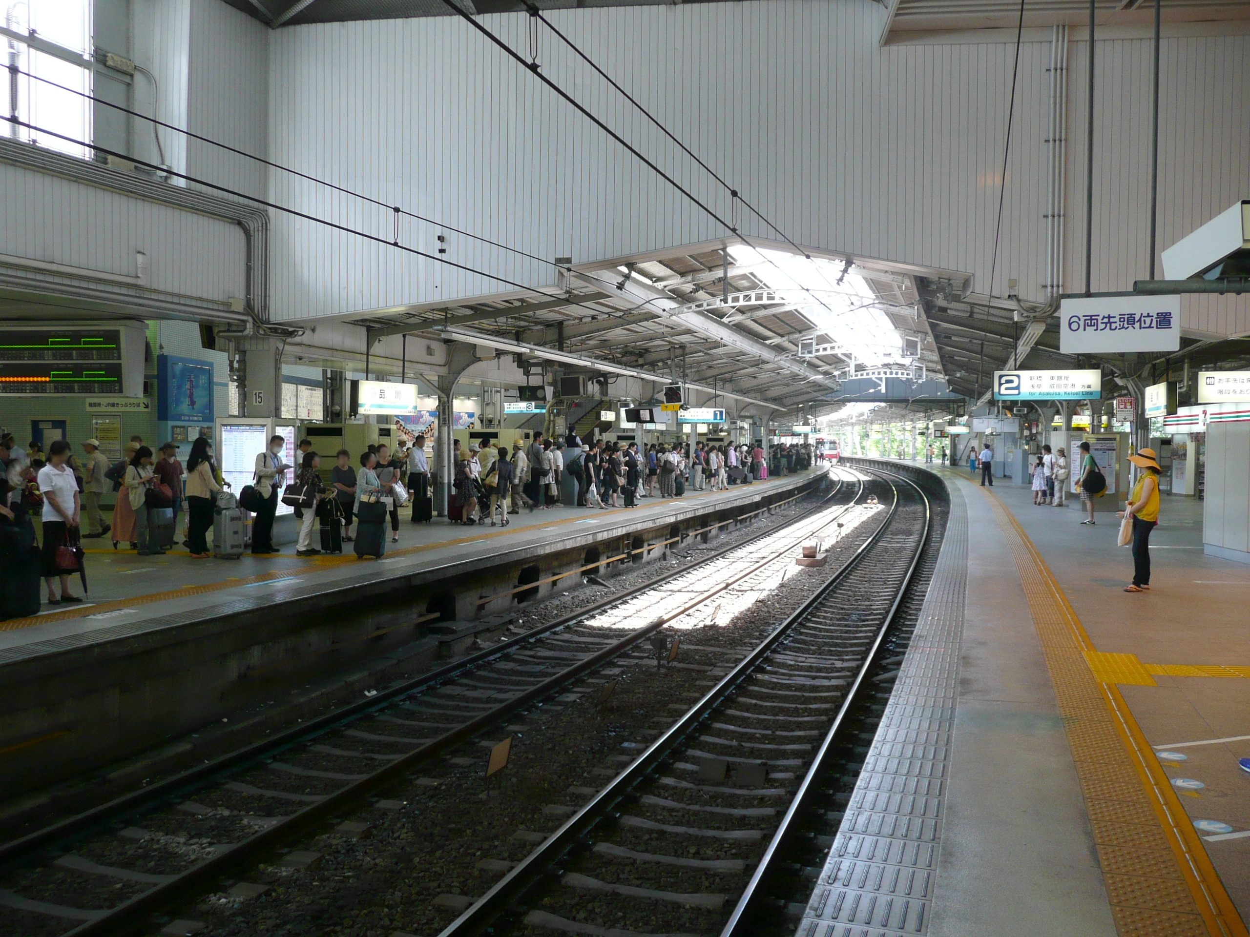 Keikyu platforms of Shinagawa Station